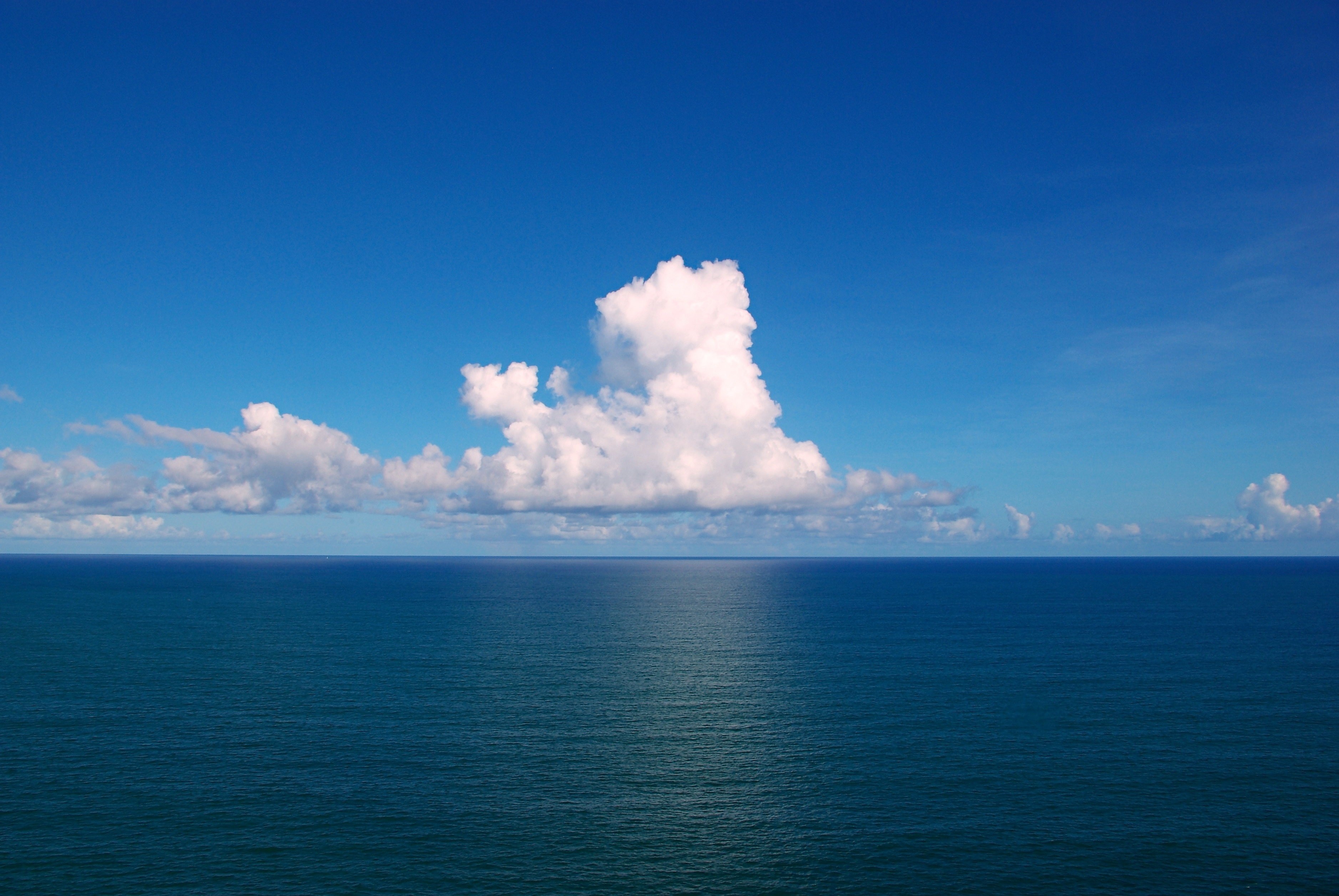 Cumulus congestus clouds over the Atlantic Ocean, Salvador, Bahia, Brazil.